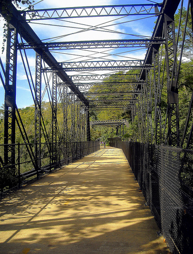 Arizona Avenue Railway Bridge, part of the Capital Crescent Trail, in The Palisades neighborhood of Washington. Built 1909 by the Baltimore and Ohio Railroad. B&O reinforced the bridge in 1927. Rails removed and concrete deck added for trail use in 1992.